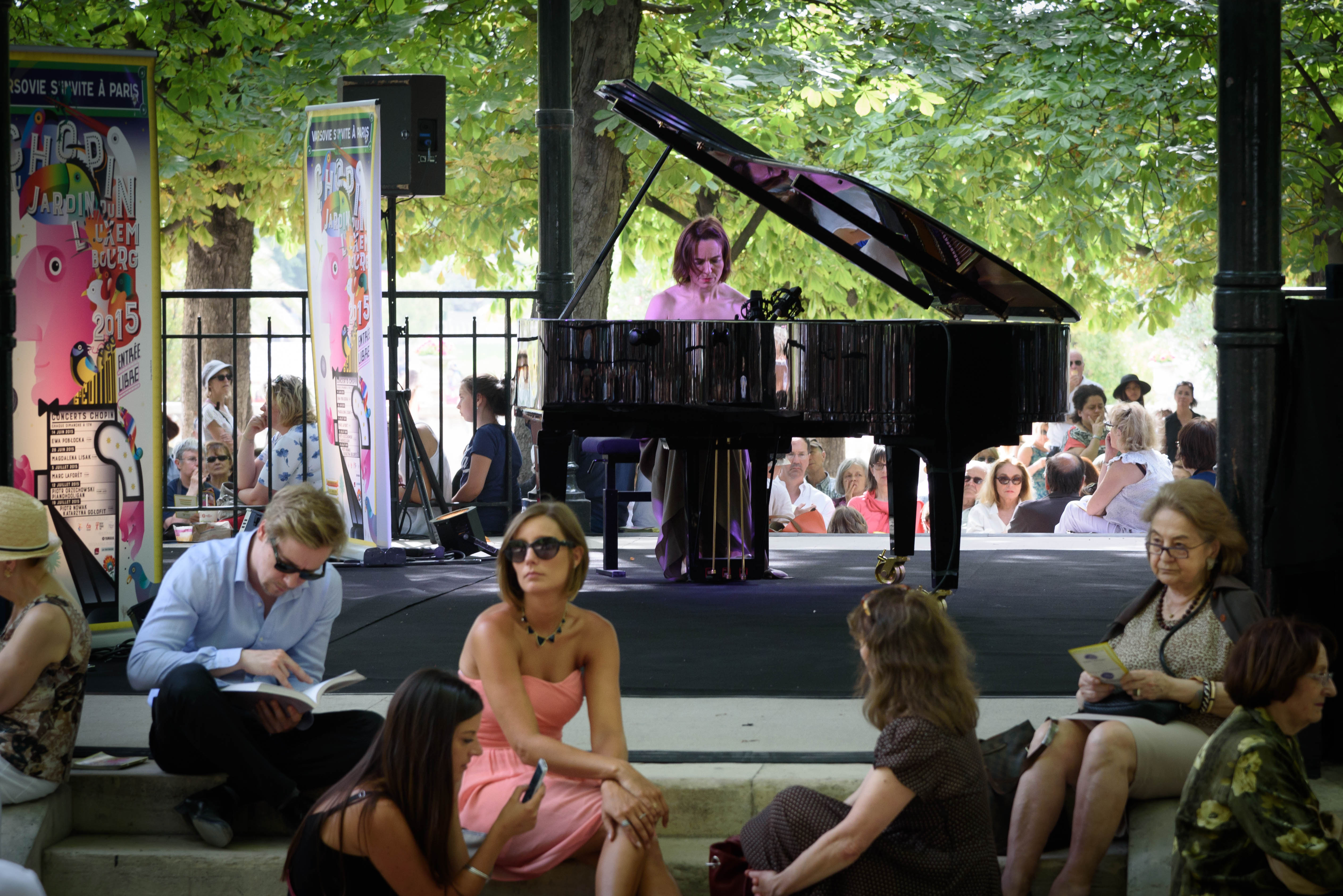 Free piano recitals in the Luxembourg Gardens, Paris. The pianist hasn't started yet which is why no one seems to be paying attention.